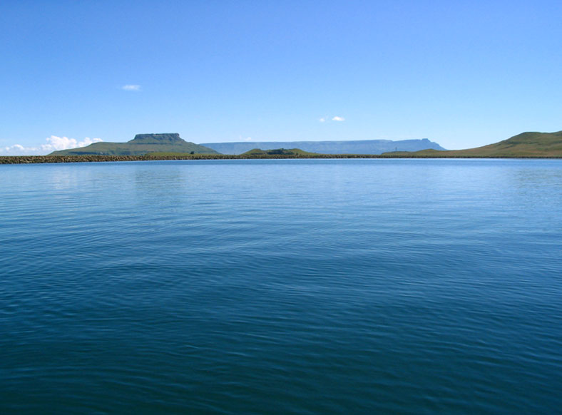 Sterkfontein Dam with Baker's Kop and Platberg in the background